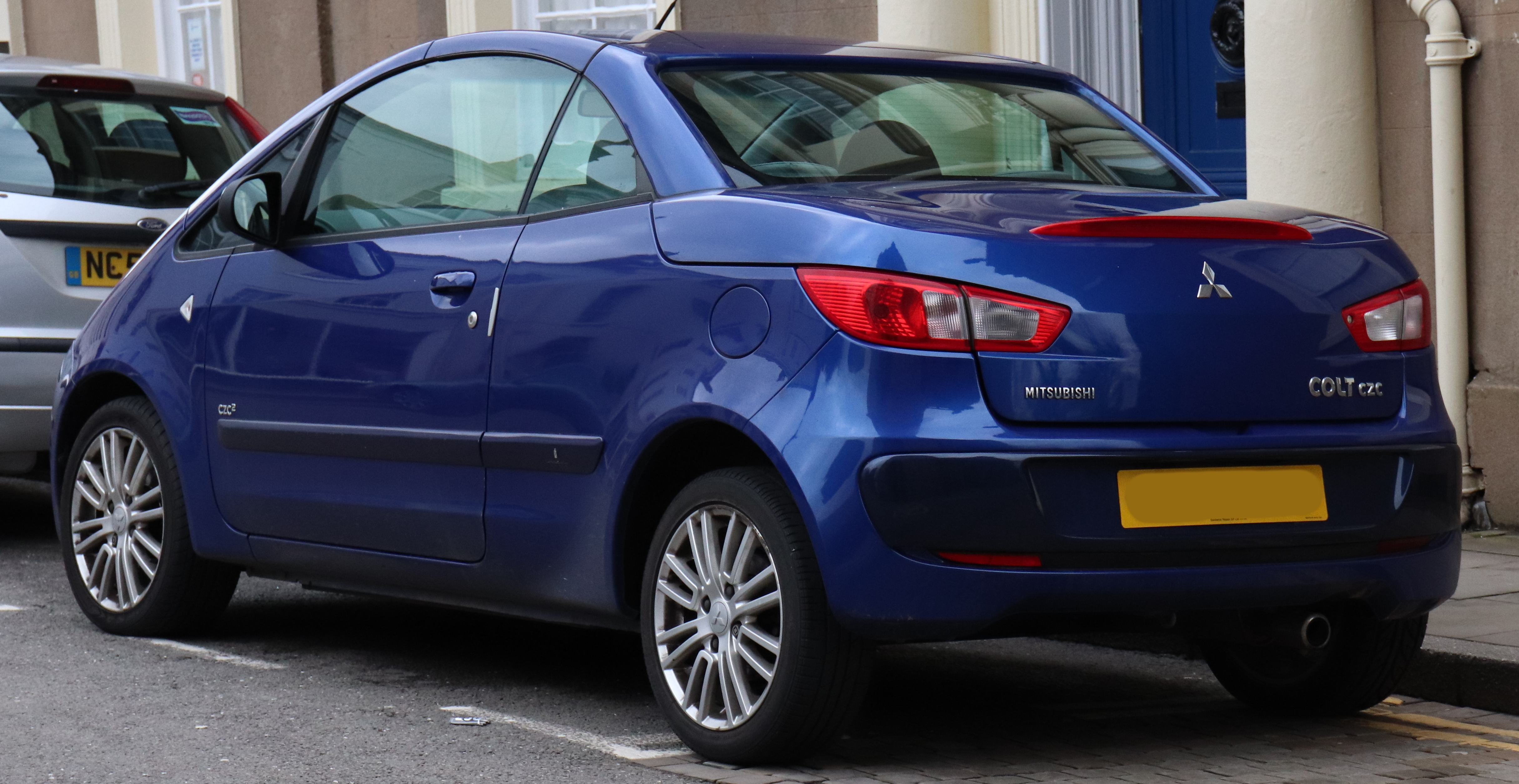 2008 Mitsubishi Colt CZC2 1.5 Rear Taken in Warwick